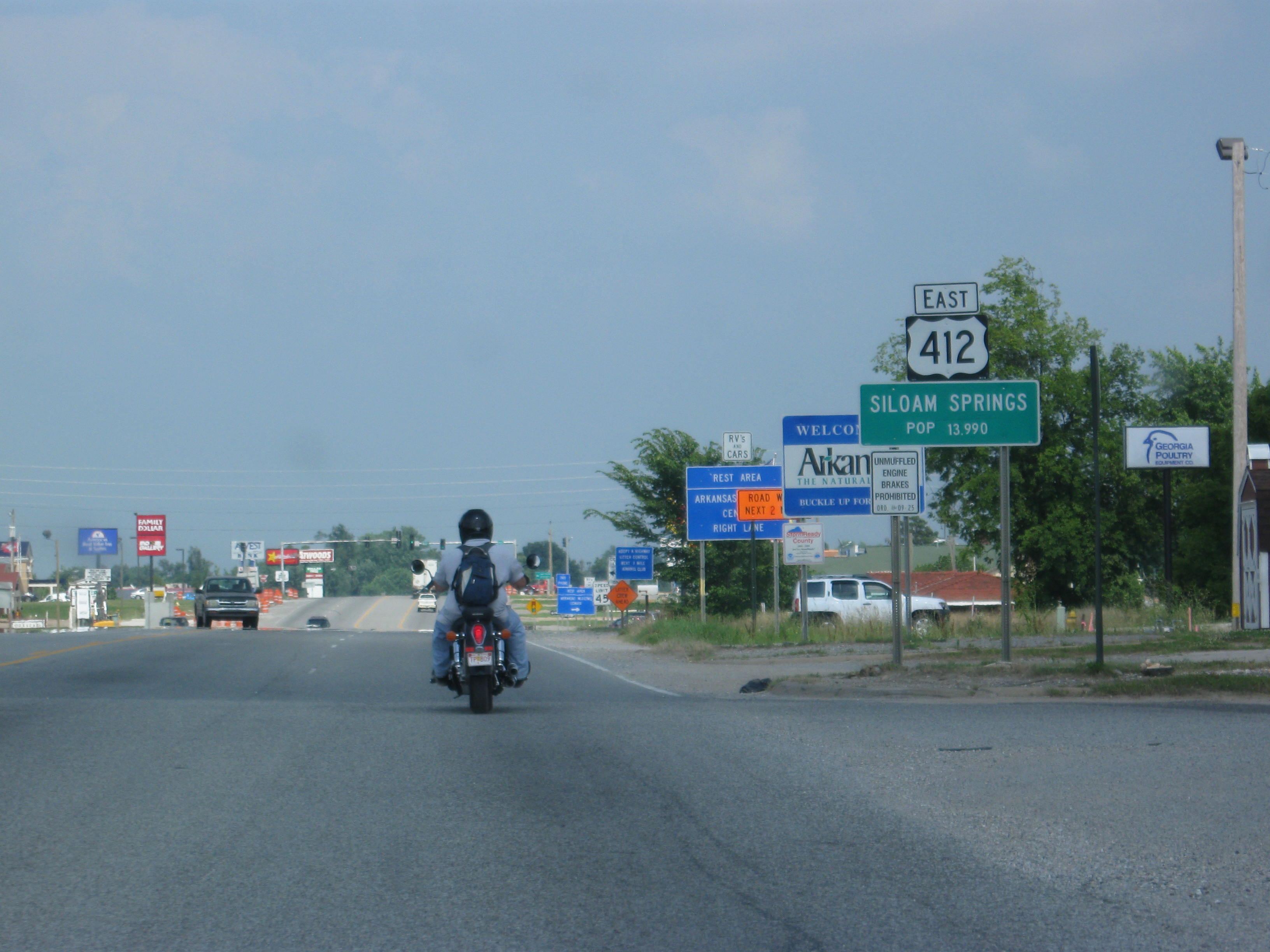 Picture of US 412 and Arkansas signs